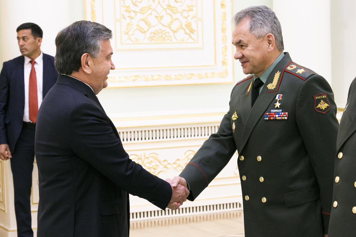 Visit of the Minister of Defense of the Russian Federation in Uzbekistan.